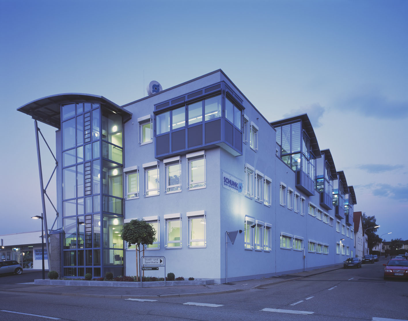 ZEUS Development Center, a building at the company's headquarters in Lauffen upon Neckar